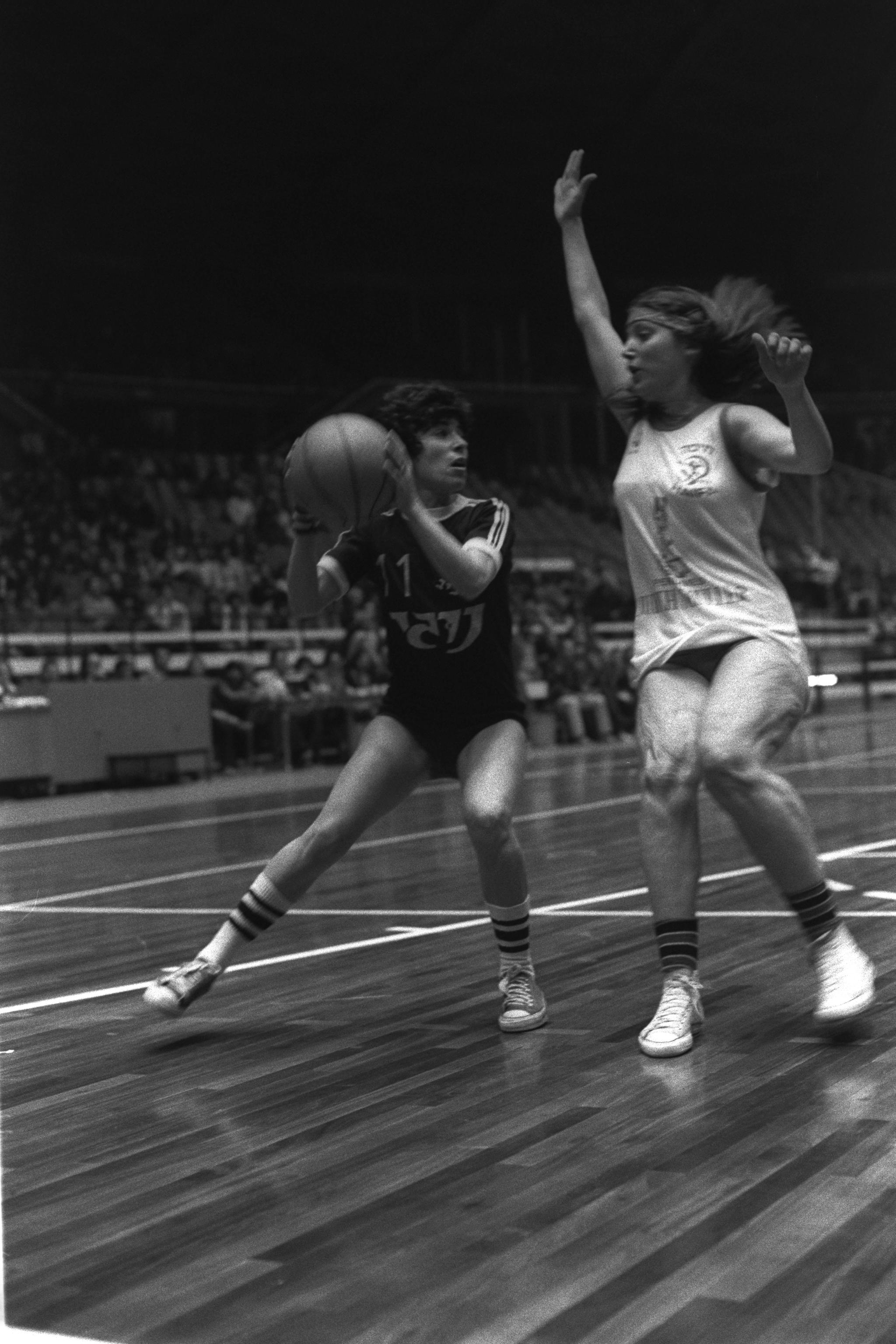 A women's championship basketball game between Hapoel Haifa and Elitzur Tel Aviv, held at Yad Eliyahu. משחק אליפות כדורסל נשים, בין קבוצת הפועל חיפה ואליצור תל אביב, איצטדיון יד אליהו Photo: Yaakov Saar (1951–) Alternative names SA'AR YA'ACOV; Jacob Saar; Saʻar, YaʻaḳovDescriptionIsraeli photographerDate of birth 1951 Authority control : Q28751896 VIAF: 298161188 NLI: 001394176 creator QS:P170,Q28751896 , 03/10/1980